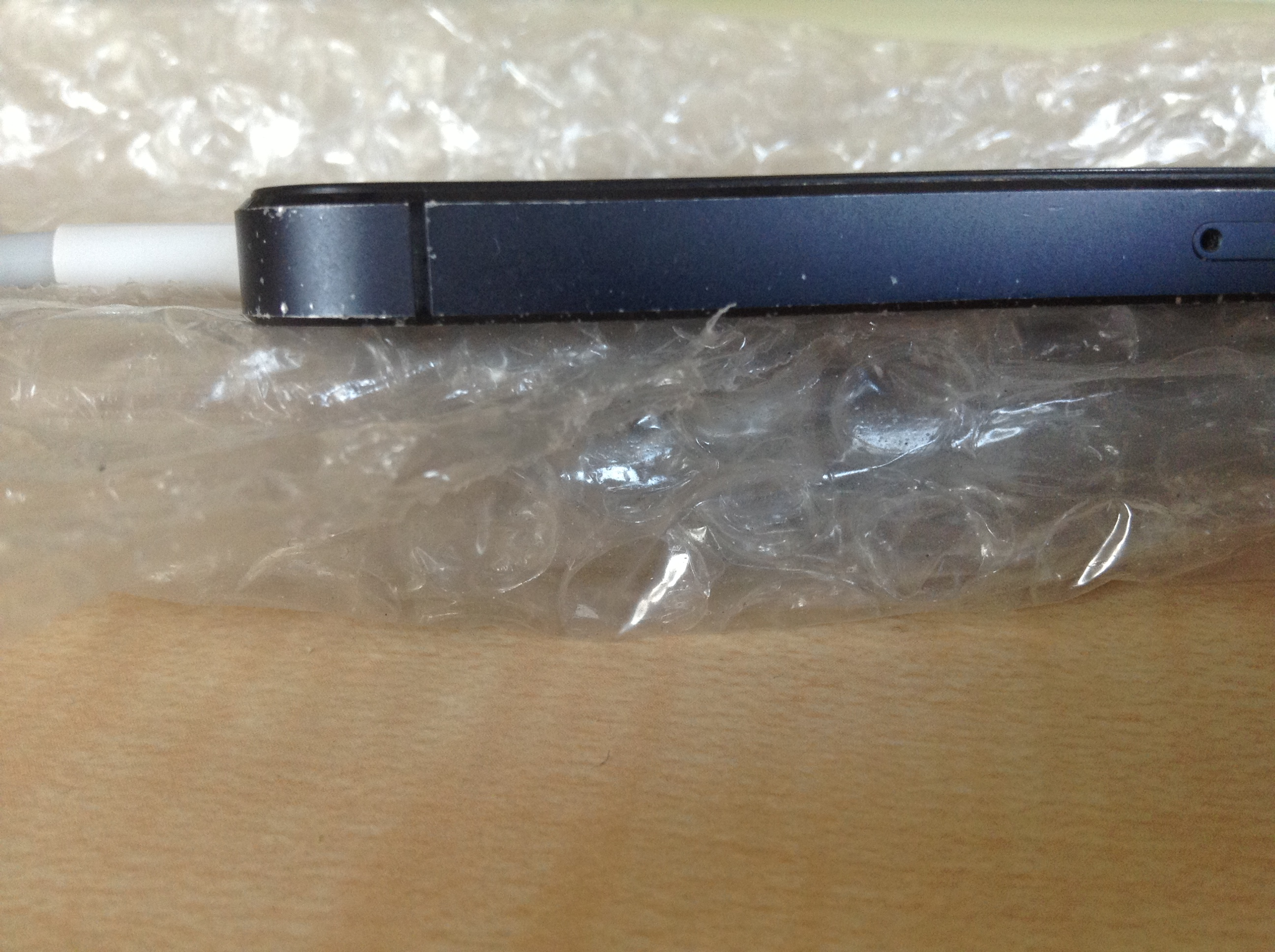 iPhone 5 side